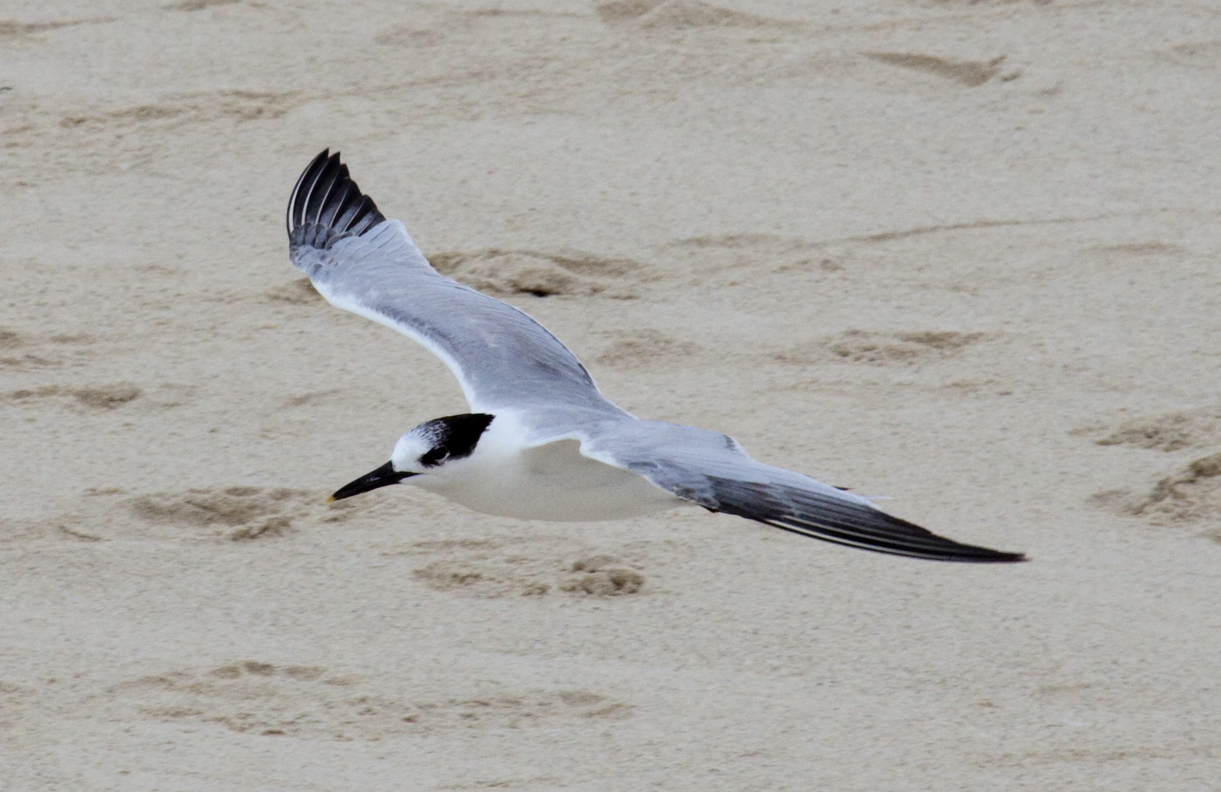 Cabot's Tern Thalasseus acuflavidus in winter plumage, Yucatán, Mexico.